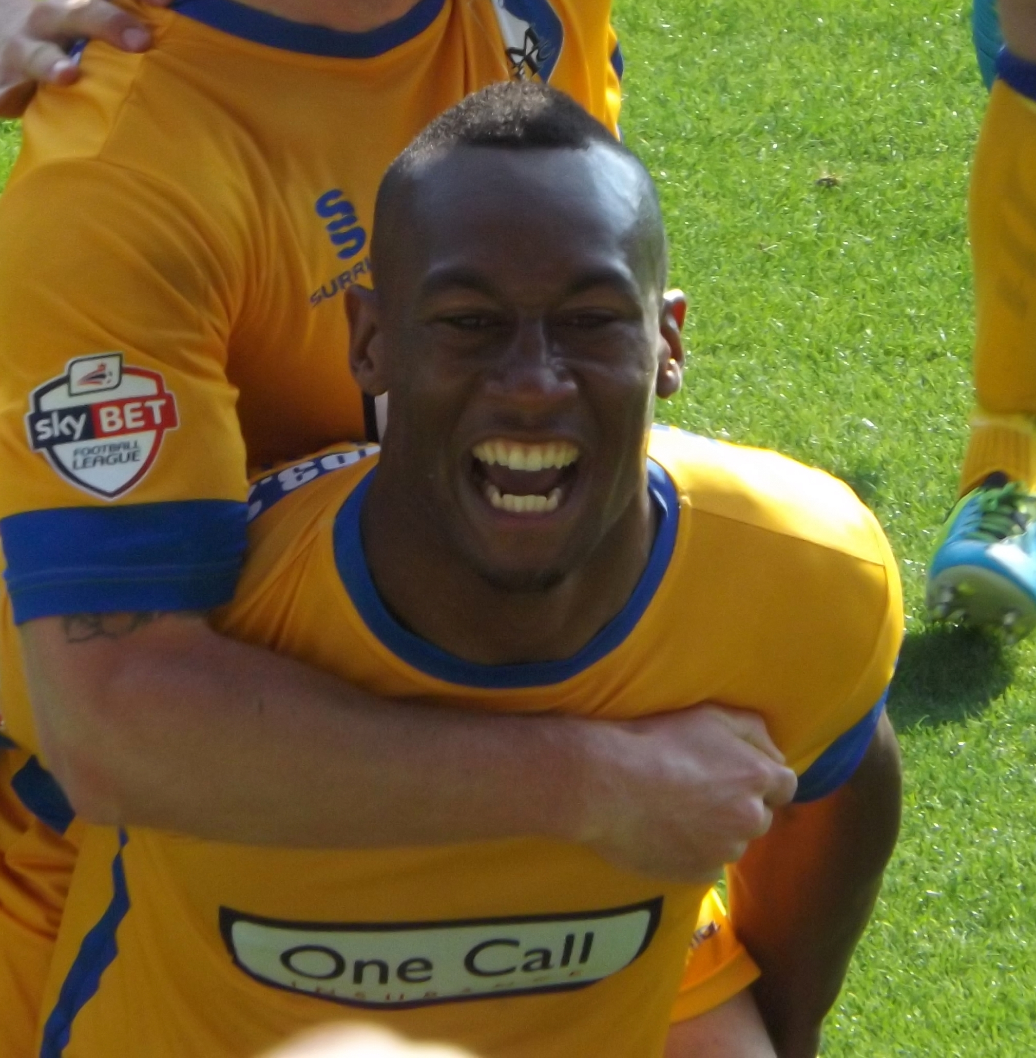 Calvin Andrew celebrating scoring for Mansfield Town against Chesterfield at the Proact Stadium, Chesterfield on 28 September 2013